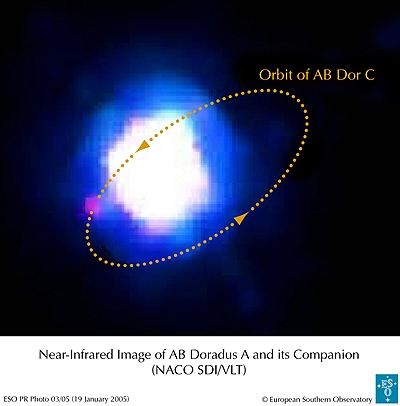 Near-Infrared Image of AB Doradus A and its Companion, AB Doradus C (NACO SDI/VLT). The orbit of AB Doradus C around its more massive companion, AB Doradus A, is shown as a yellow ellipse.